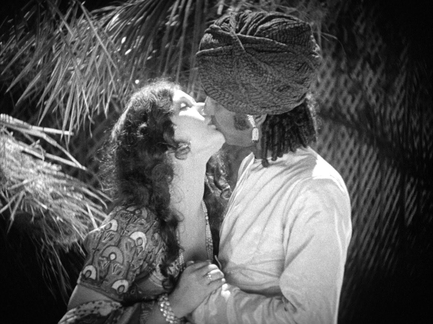 Actress Seeta Devi and Charu Roy kissing in A Throw of Dice